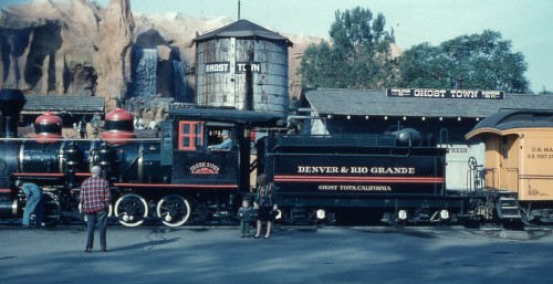 Knotts Berry Farm Denver & Rio Grand steam locomotive, 1963